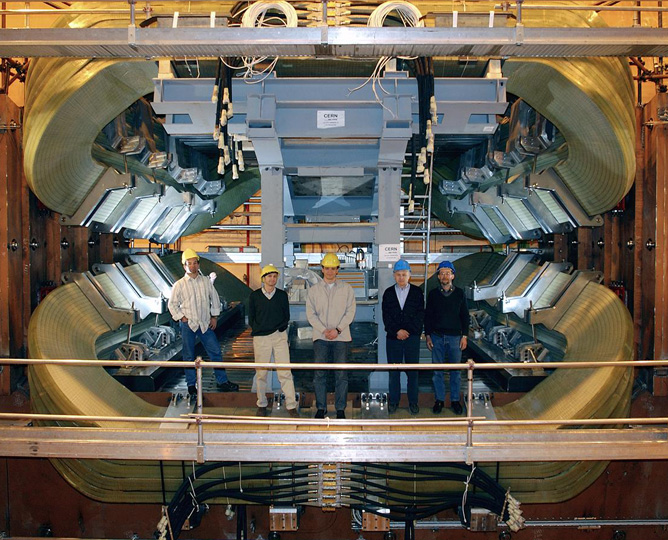 LHCb magnet